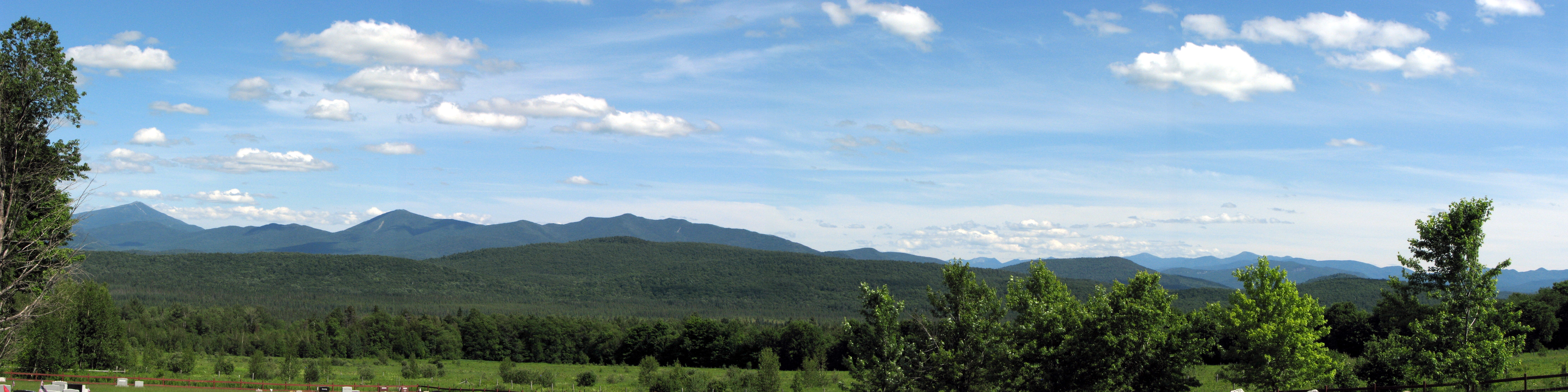 View from NY route 86 in Harrietstown, NY, USA of the Adirondack High Peaks